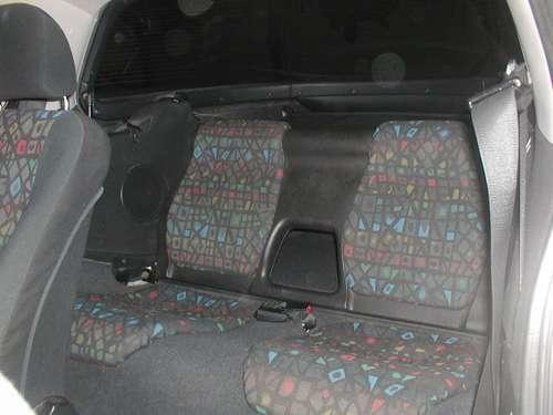 Self made picture from my own Opel Tigra to show the different interior layout when compared to the Opel Corsa from which the Tigra was derived. Loudenvier 13:39, 7 August 2006 (UTC)